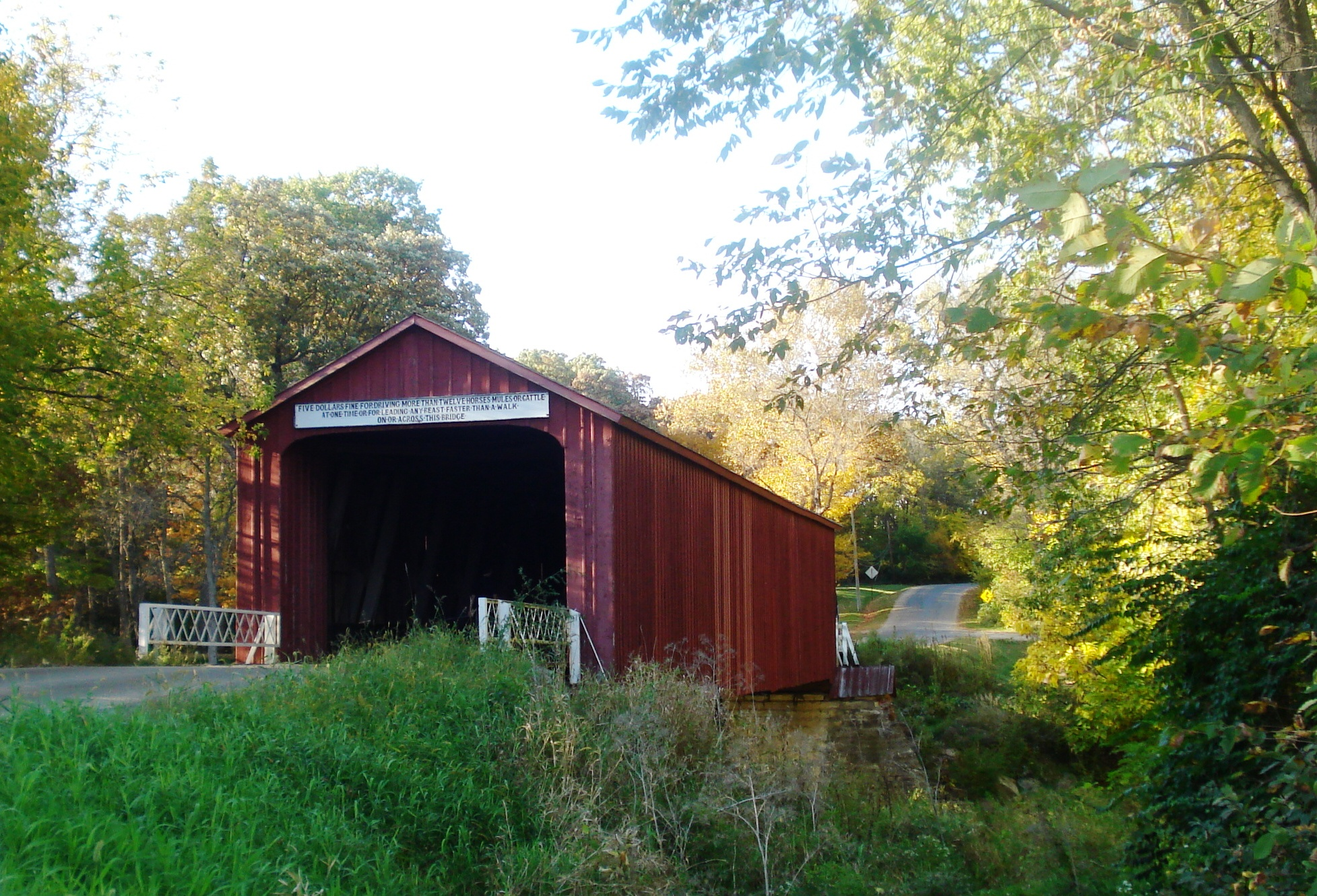 Red Covered Bridge North of Princeton, IL.